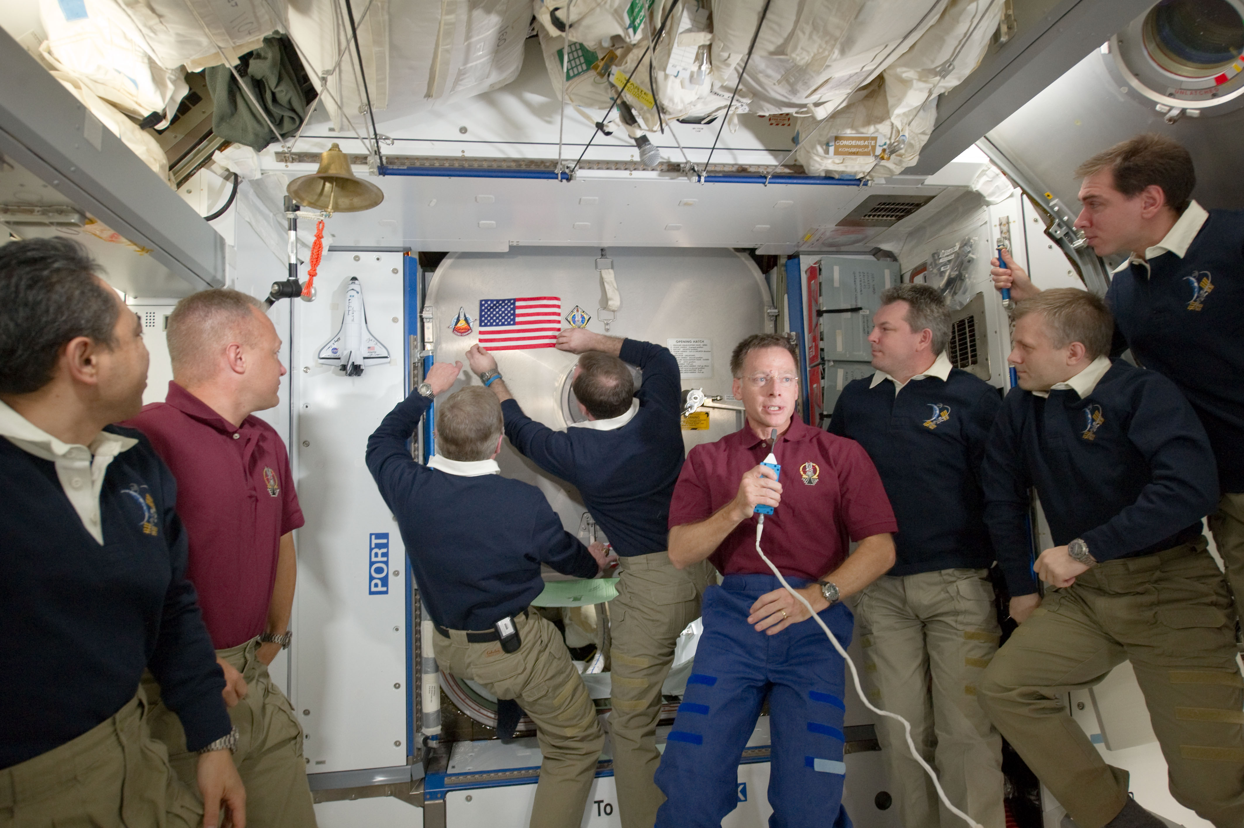 At the farewell ceremony before the shuttle crew returned to Atlantis, NASA astronaut Chris Ferguson (center with microphone), STS-135 commander, made some special presentations of a U.S. flag and a space shuttle model. Members of the joint shuttle and International Space Station crews in the picture are, from the left, JAXA astronaut Satoshi Furukawa, NASA astronauts Doug Hurley, Mike Fossum, Ron Garan and Ferguson, along with Russian cosmonauts Alexander Samokutyaev, Andrey Borisenko and Sergei Volkov. Not in the picture are NASA astronauts Sandy Magnus and Rex Walheim. The shuttle commander presented to the station and its current crew the small shuttle model and the U.S. flag that was originally flown into space on the first shuttle mission in 1981, and seen here at the finger tips of Fossum and Garan. The shuttle model, seen on the wall between Hurley and Fossum, was signed by program officials and the mission's lead shuttle and station flight directors. "What you don't see is the signatures of the tens of thousands who rose to orbit with us over the past 30 years, if only in spirit," Ferguson said.